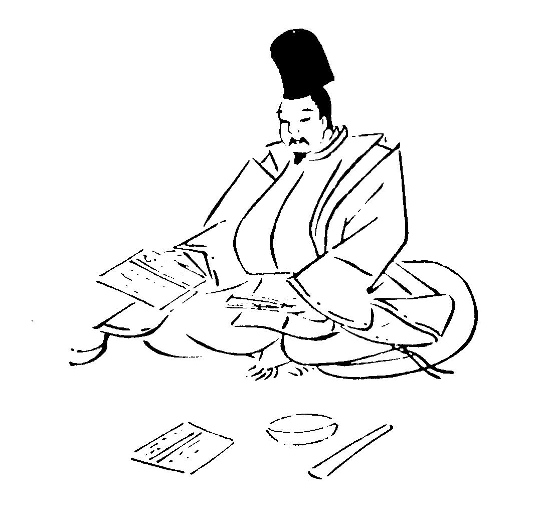 From Shichiju ichiban shokunin utaawase 334th "Kusushi" (circa 1500)